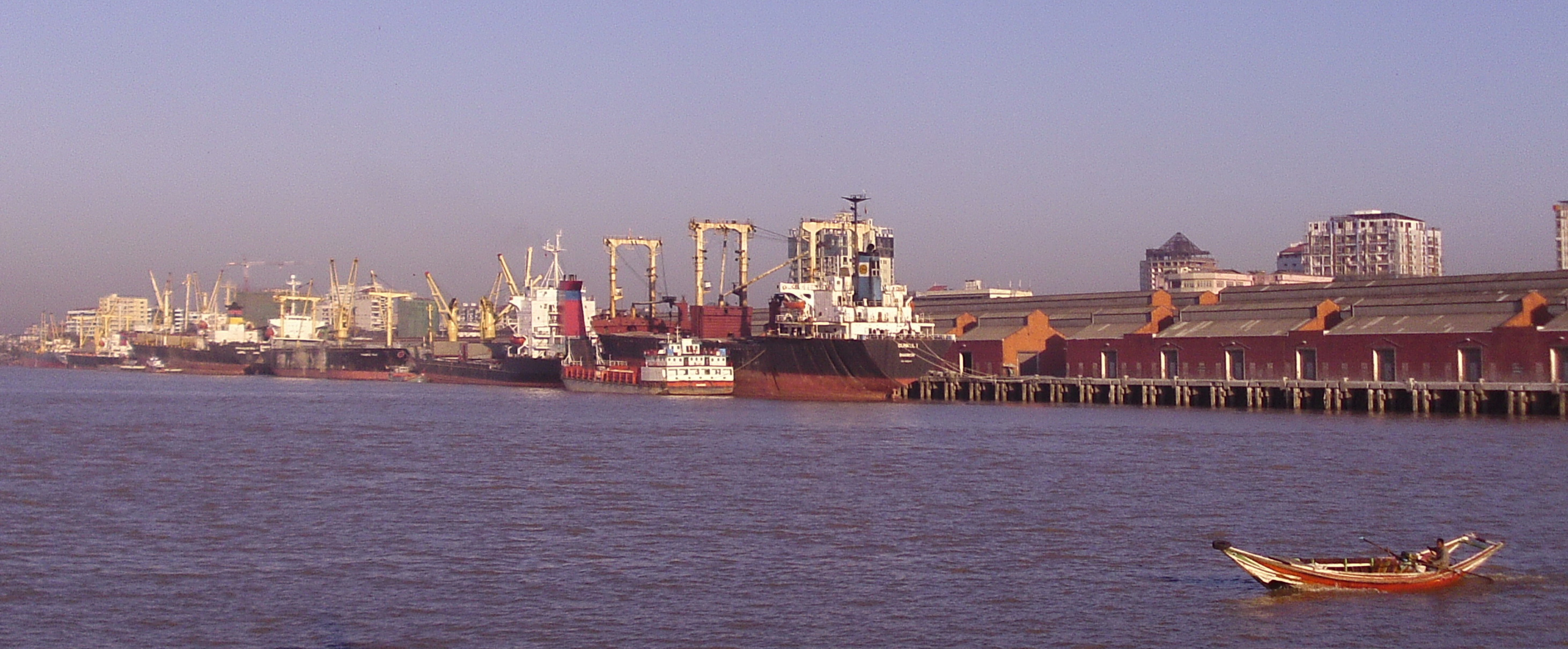 A part of Yangon Port, Myanmar